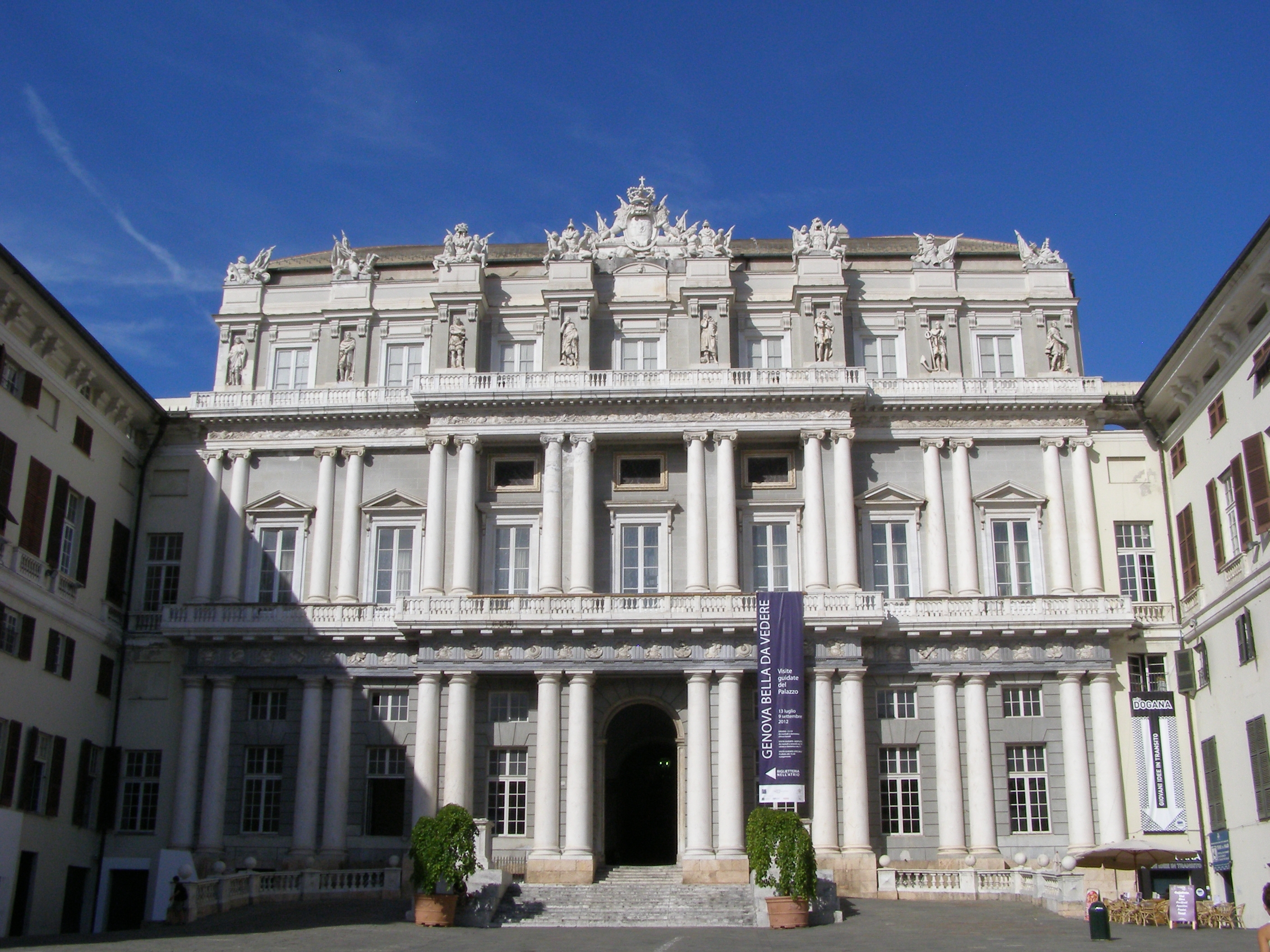 Genoa - Palace of the Doges